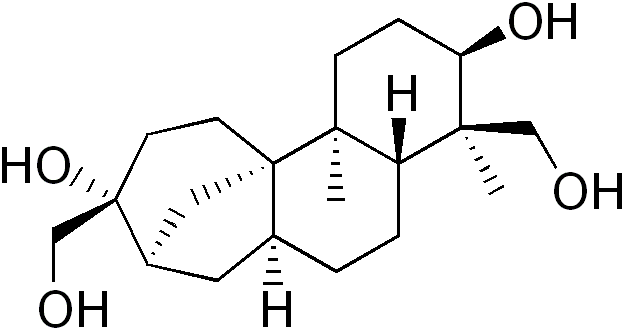 chemical structure of aphidicolin